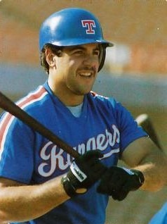 Image cropped from a baseball card of Texas Rangers player Pete Incaviglia from the 1986 Rob Broder set.